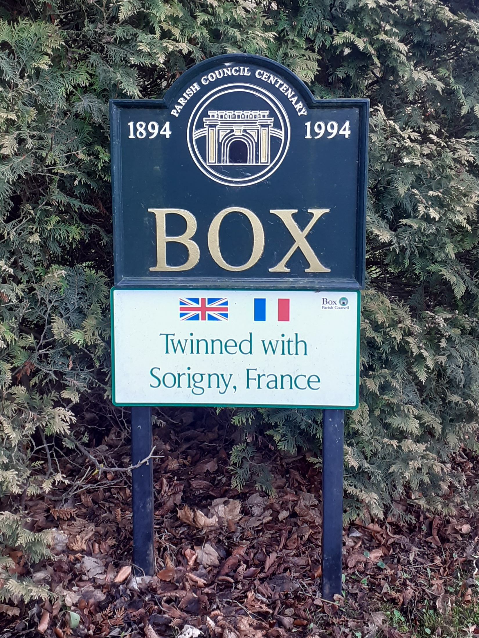 Village sign marking the entrance to Box, Wiltshire, United Kingdom on 29 January 2020. Located near the A4 London Road.